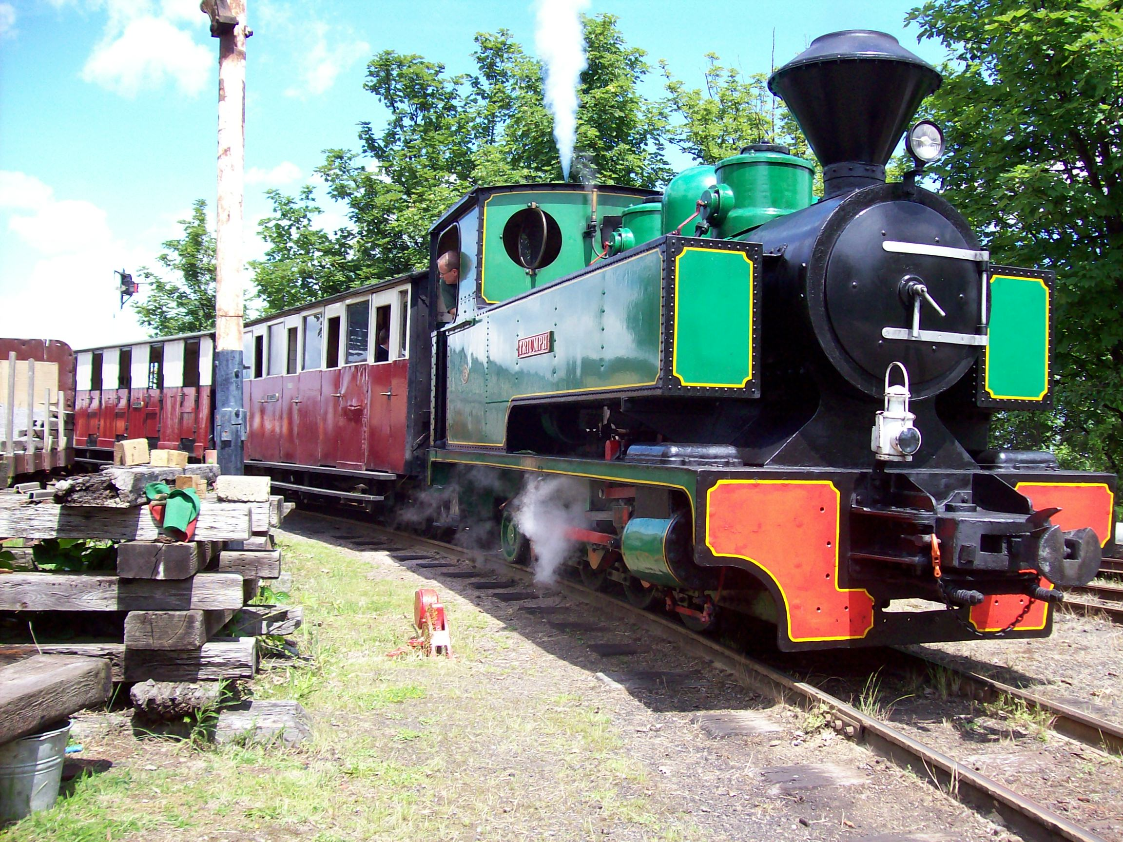 Triumph arriving at Sittingbourne, SKLR